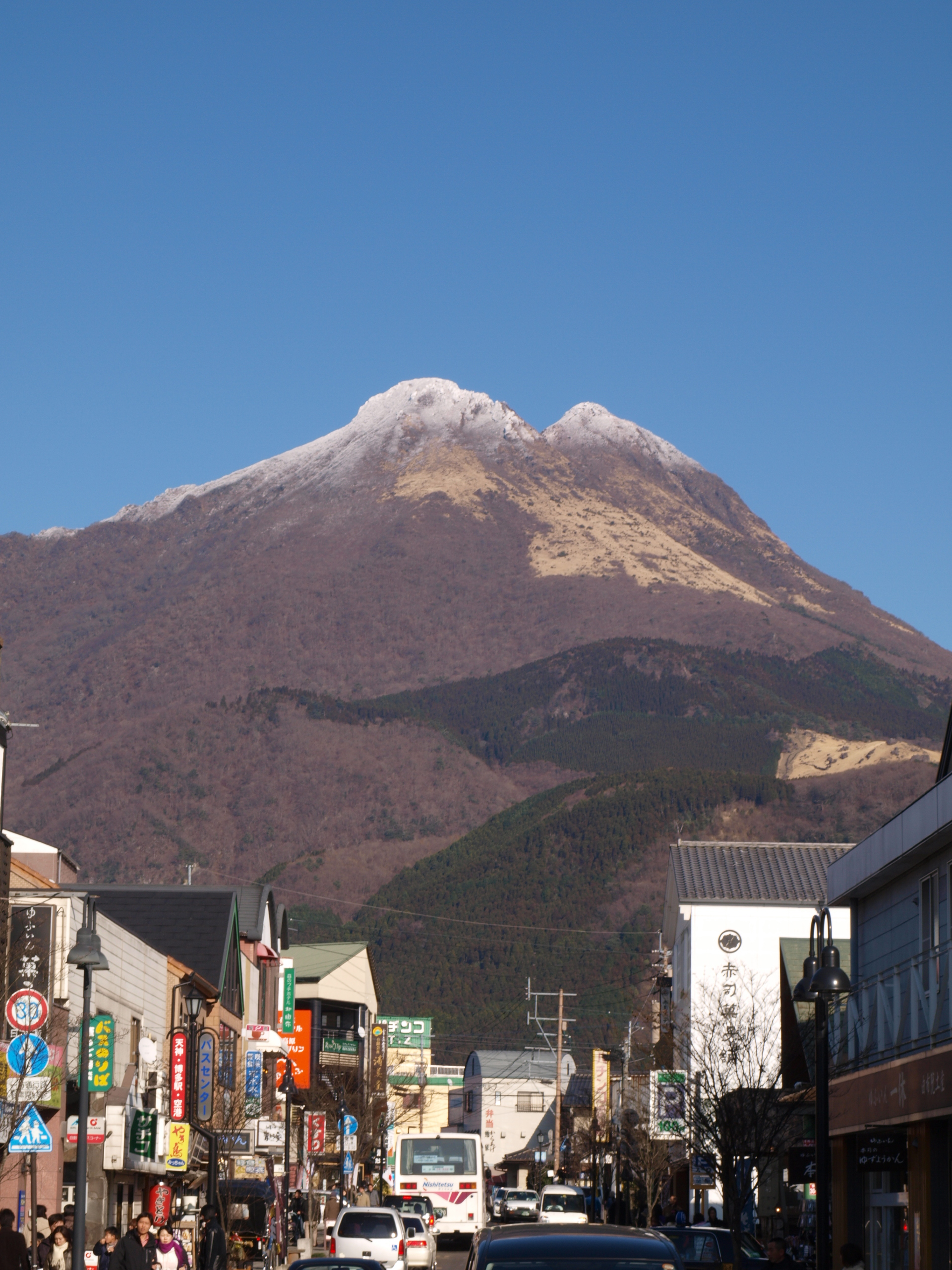 Mount Yufu viewed from southwest, near Yufuin Station.